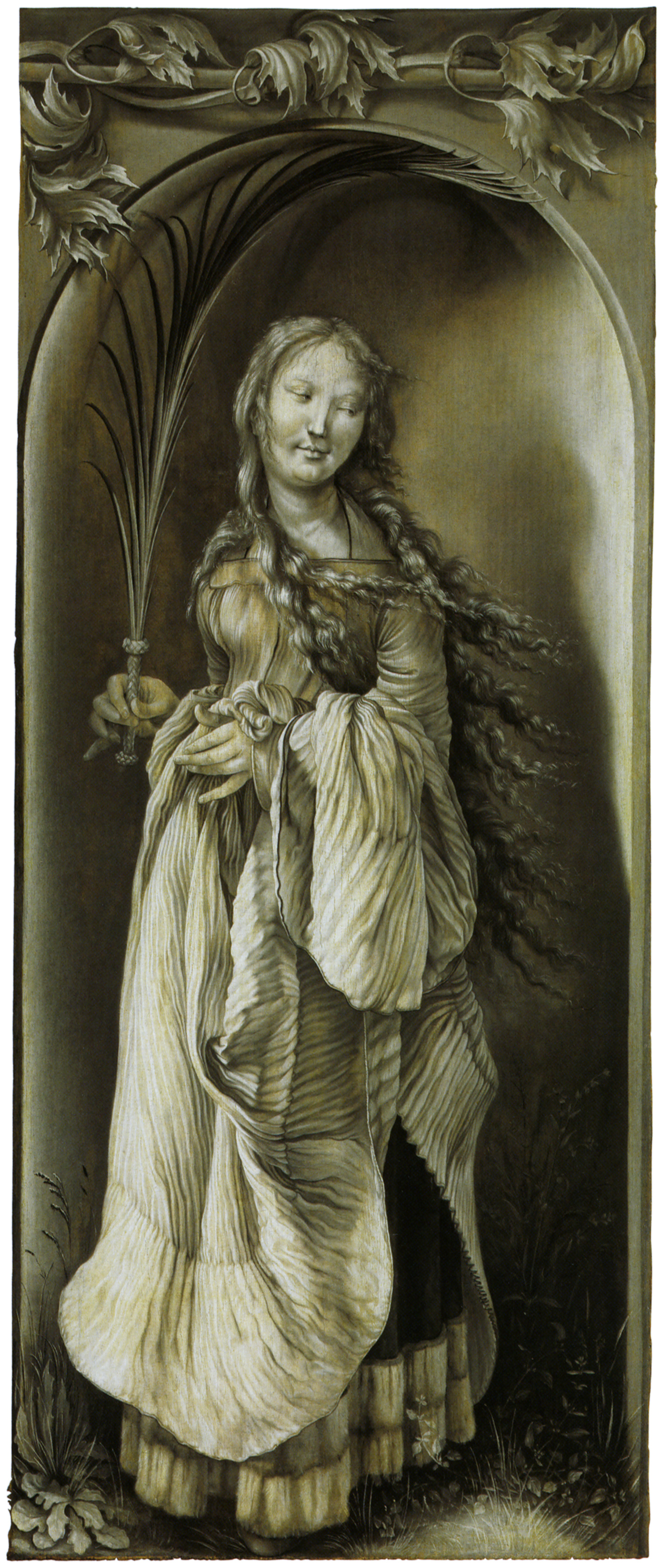 Standing panel: unknown Saint, Lucy (?)